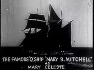 Screen capture from the 1935 movie The Mystery of the Marie Celeste (released in the United States as The Phantom Ship) showing the Mary B Mitchell in the credits. Movie downloaded from The Internet Archive as being in the Public Domain.